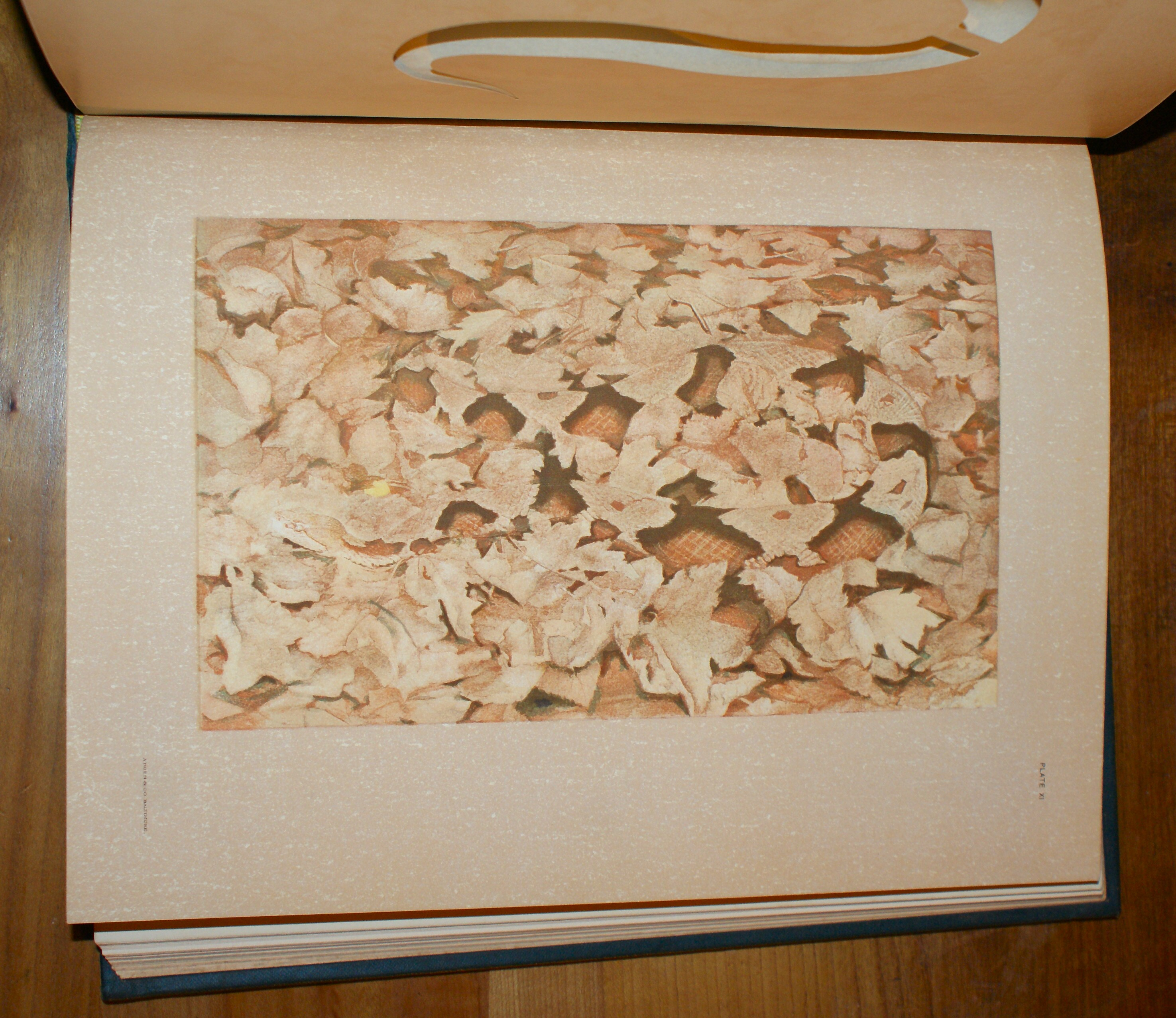 Copperhead Snake (Agkistrodon contortrix) among Leaves - painting in Concealing-Coloration in the Animal Kingdom, 1909